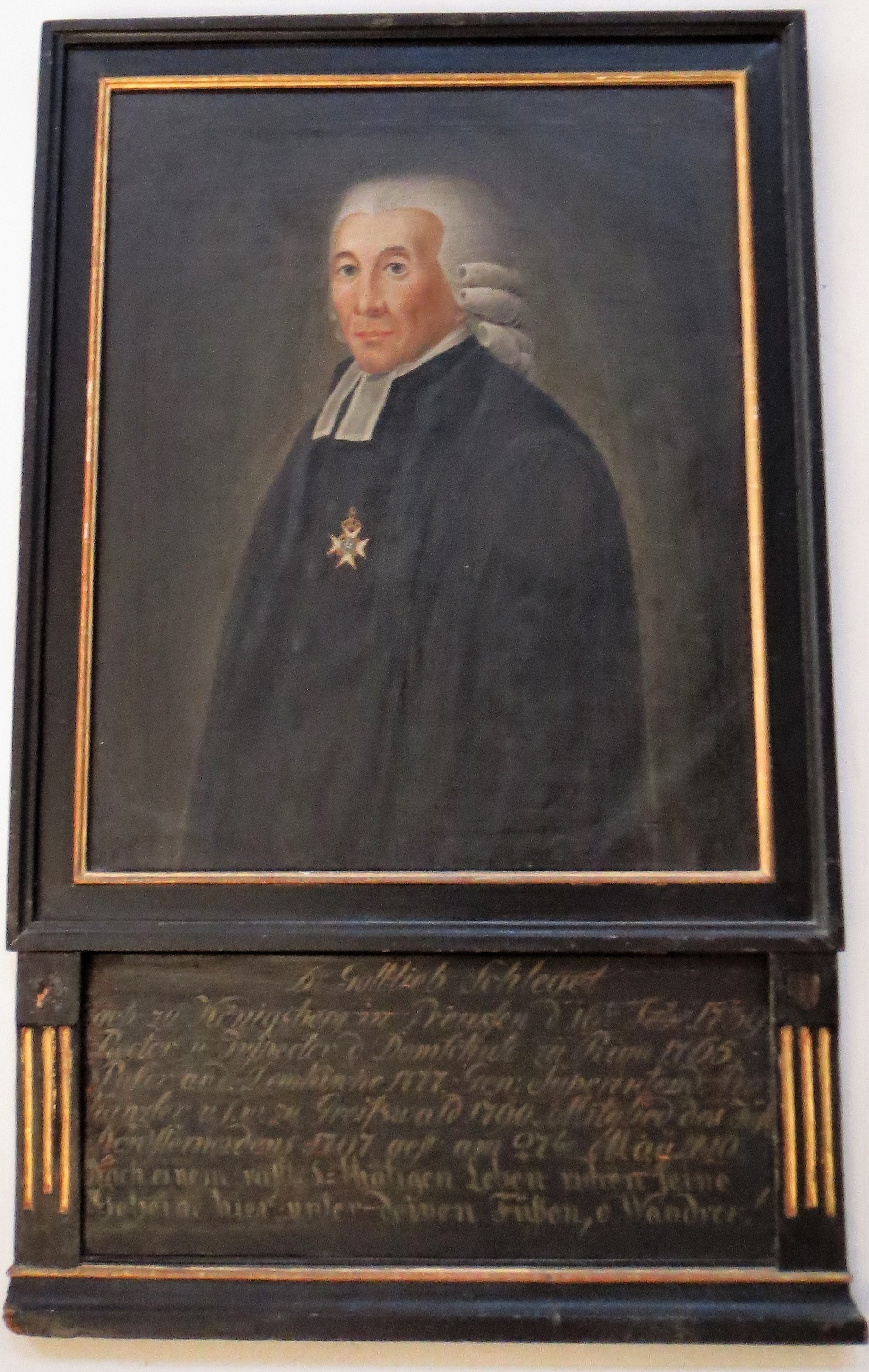 Epitaph for Gottlieb Schlegel, Dom St. Nicolai Greifswald